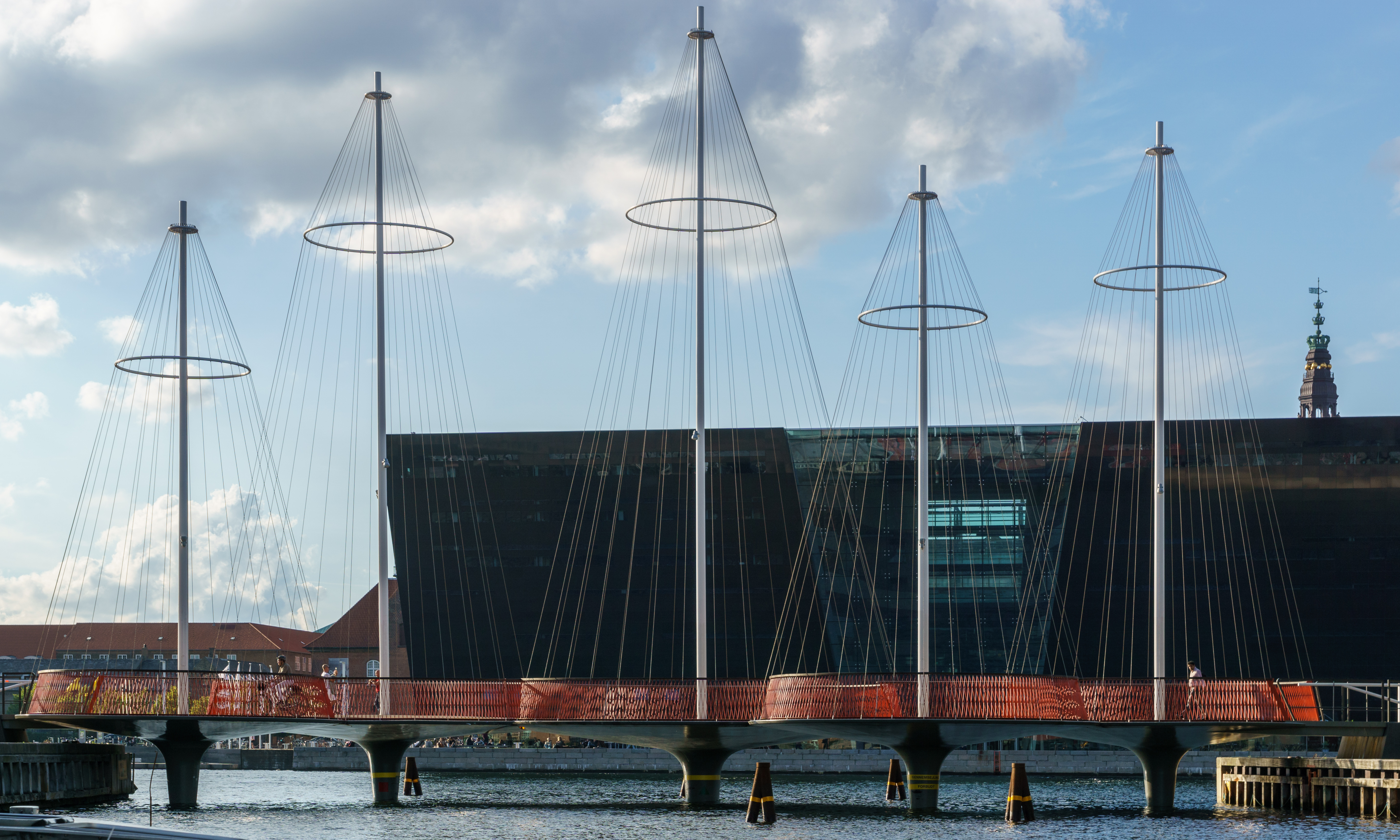 Circle Bridge, Copenhagen